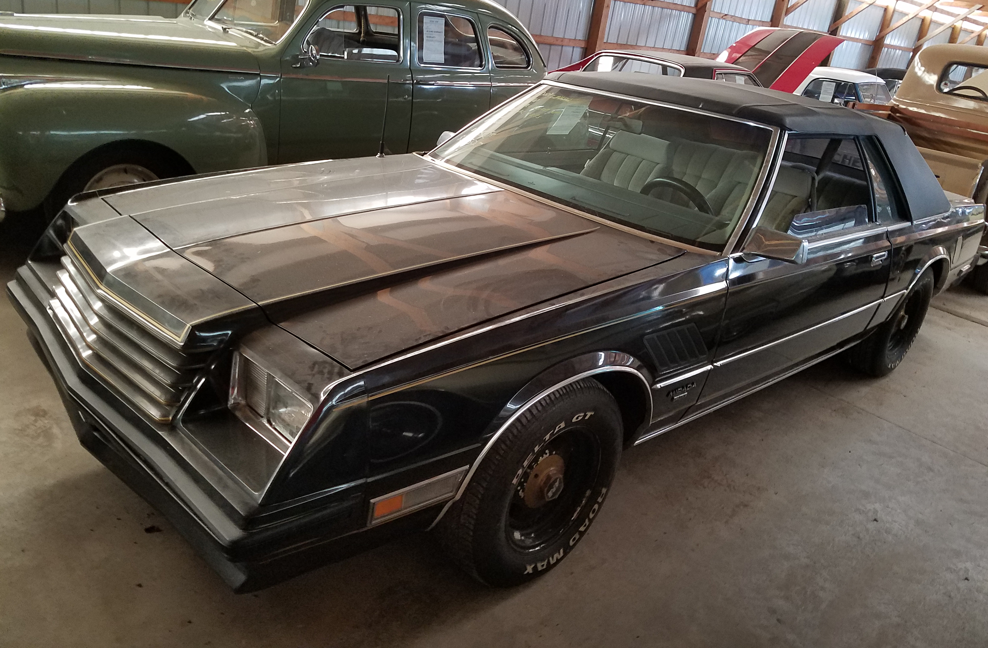 1983 Dodge Mirada Convertible